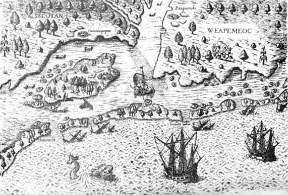 The Arrival of the Englishmen in North Carolina, 1585. From Richard Hakluyt, The Discourse Concerning Westerne Planting (1585), reprinted in Old South Leaflets (Boston: The Directors of the Old South Work, 1906).